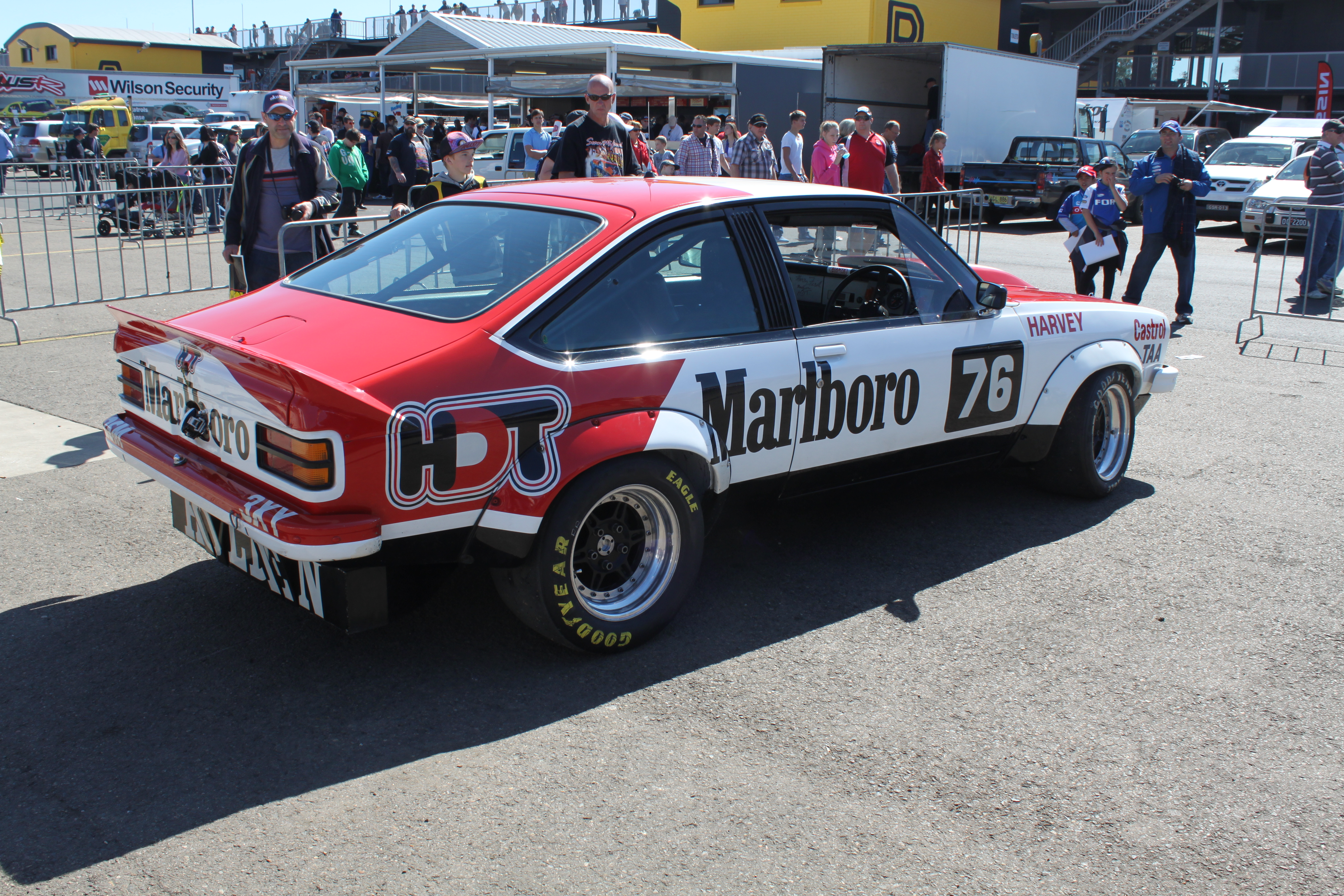 Holden Torana LX A9X John Harvey